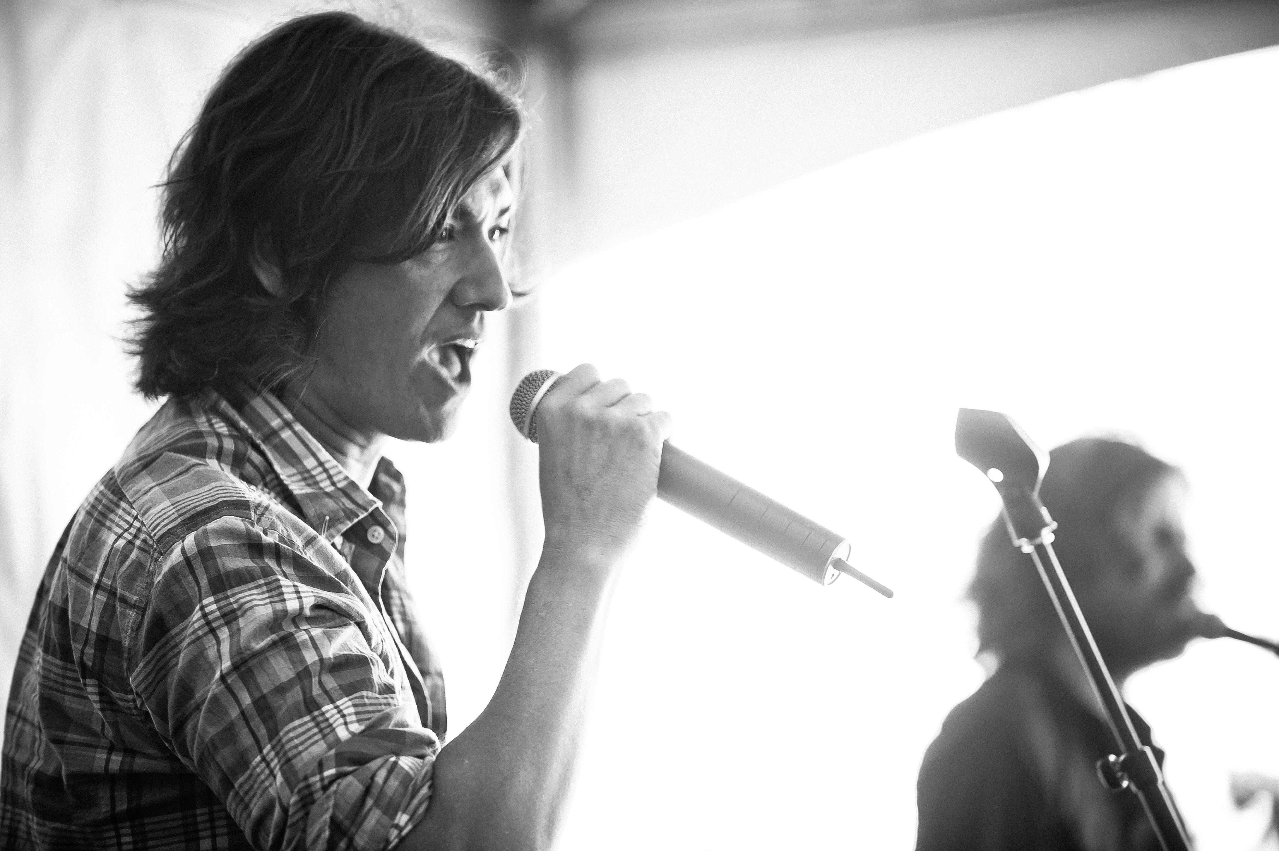 23/5/12. David Usher @ C2-MTL. CHARLES WILLIAM PELLETIER / C2-MTL